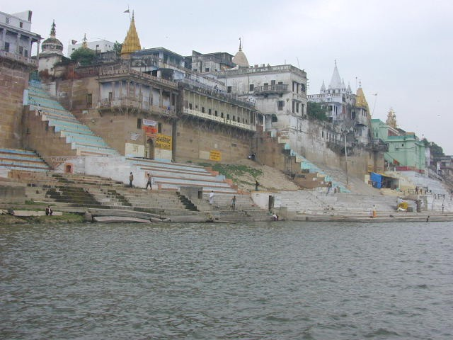 Hindu culture, have attributed supreme importance to the preservation of tradition Classical civilizations, and especially the Indian one, have attributed supreme importance to the preservation of tradition. Its central idea was that social institutions, scientific knowledge and technological applications need to use "heritage" as a "resource". Using contemporary language, we would say that ancient Indians considered, as social resources, both economic assets (like natural resources and their exploitation structure) and factors promoting social integration (like institutions for preserving knowledge and maintaining civil order). Ethics considered that what had been inherited should not be consumed, but should be handed over, possibly enriched, to successive generations. This was a moral imperative for all, except in the final life stage of sannyasa